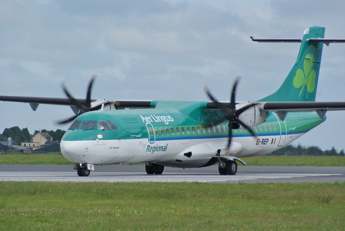 ATR 72-212 A